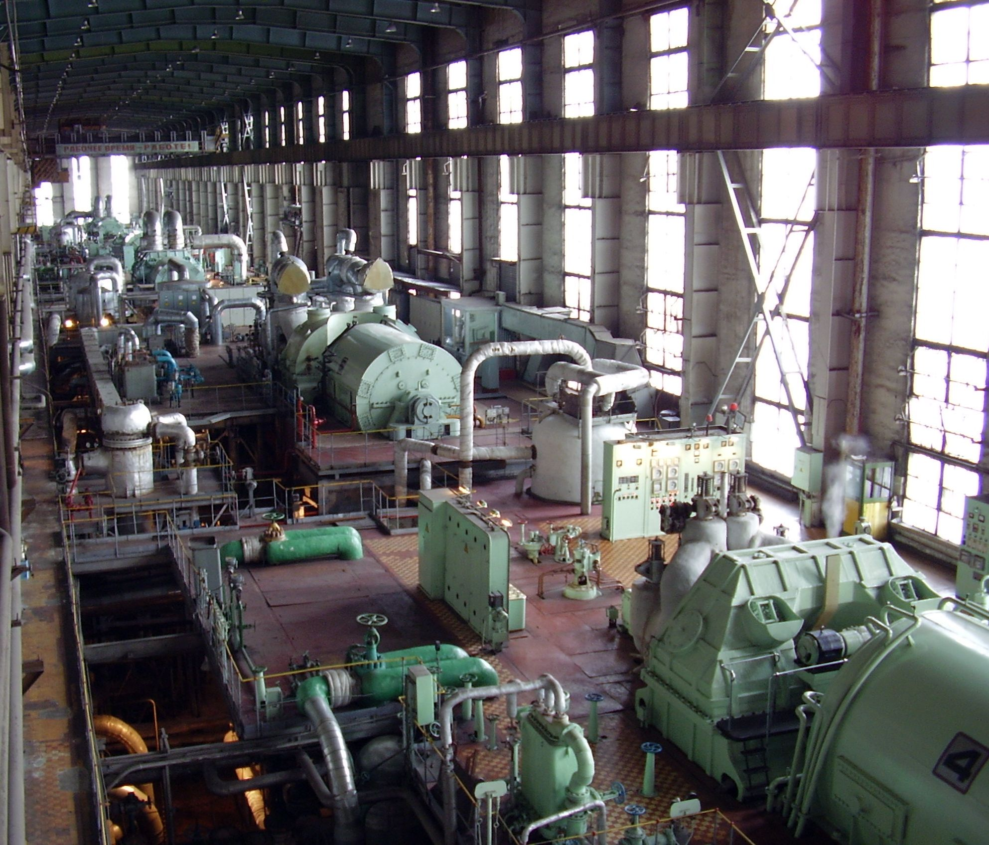 Steam turbines hall of Southern Kuzbass Power Plant